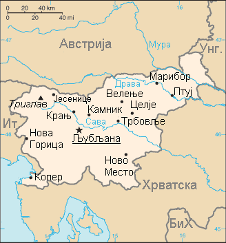 Map of Slovenia on Macedonian.